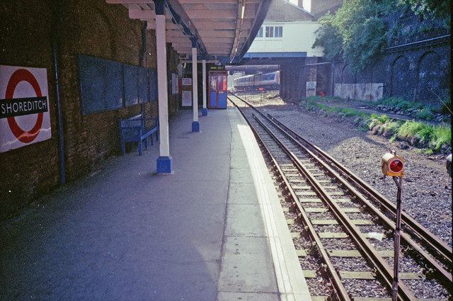 Shoreditch Station in 1991 Photo taken looking in a westerly direction along the track towards Liverpool Street. Although in 1989 Shoreditch was the northern terminus of the East London Line services did at one time run through to the main line station. This station has now closed.